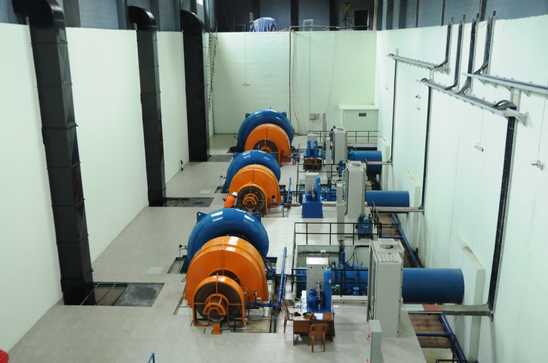 Vallibel